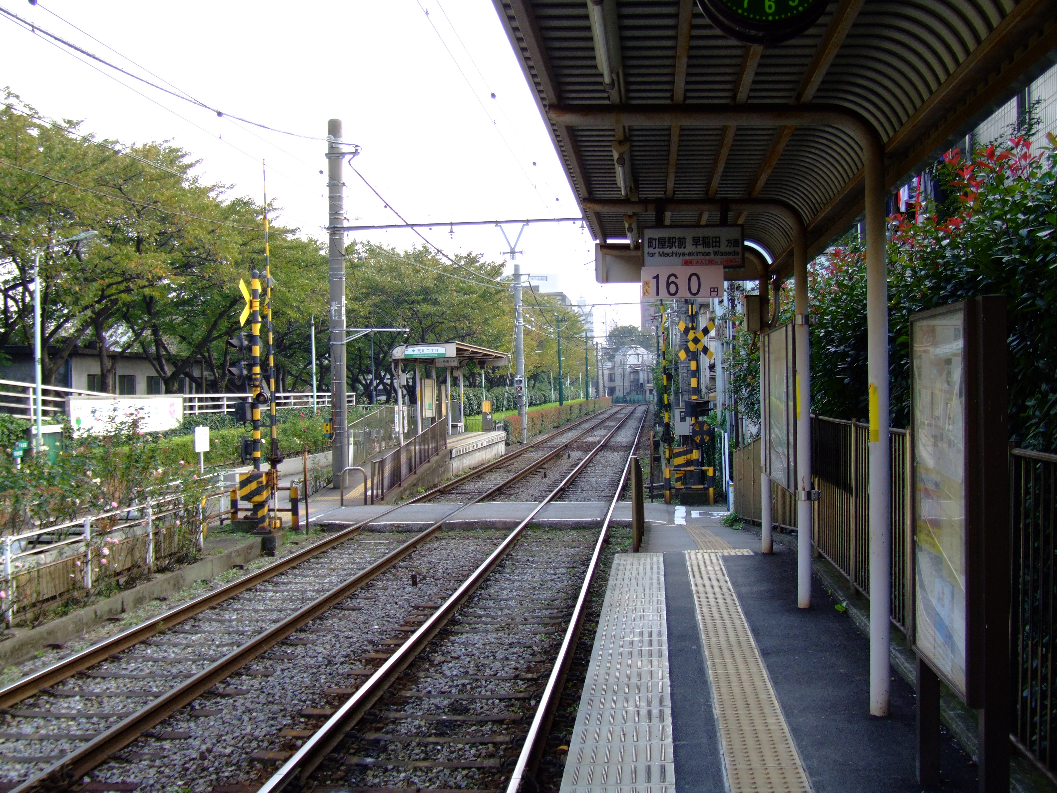 The platforms at Arakawa-nichōme Station on the Toden Arakawa Line in Arakawa city, Tokyo, Japan